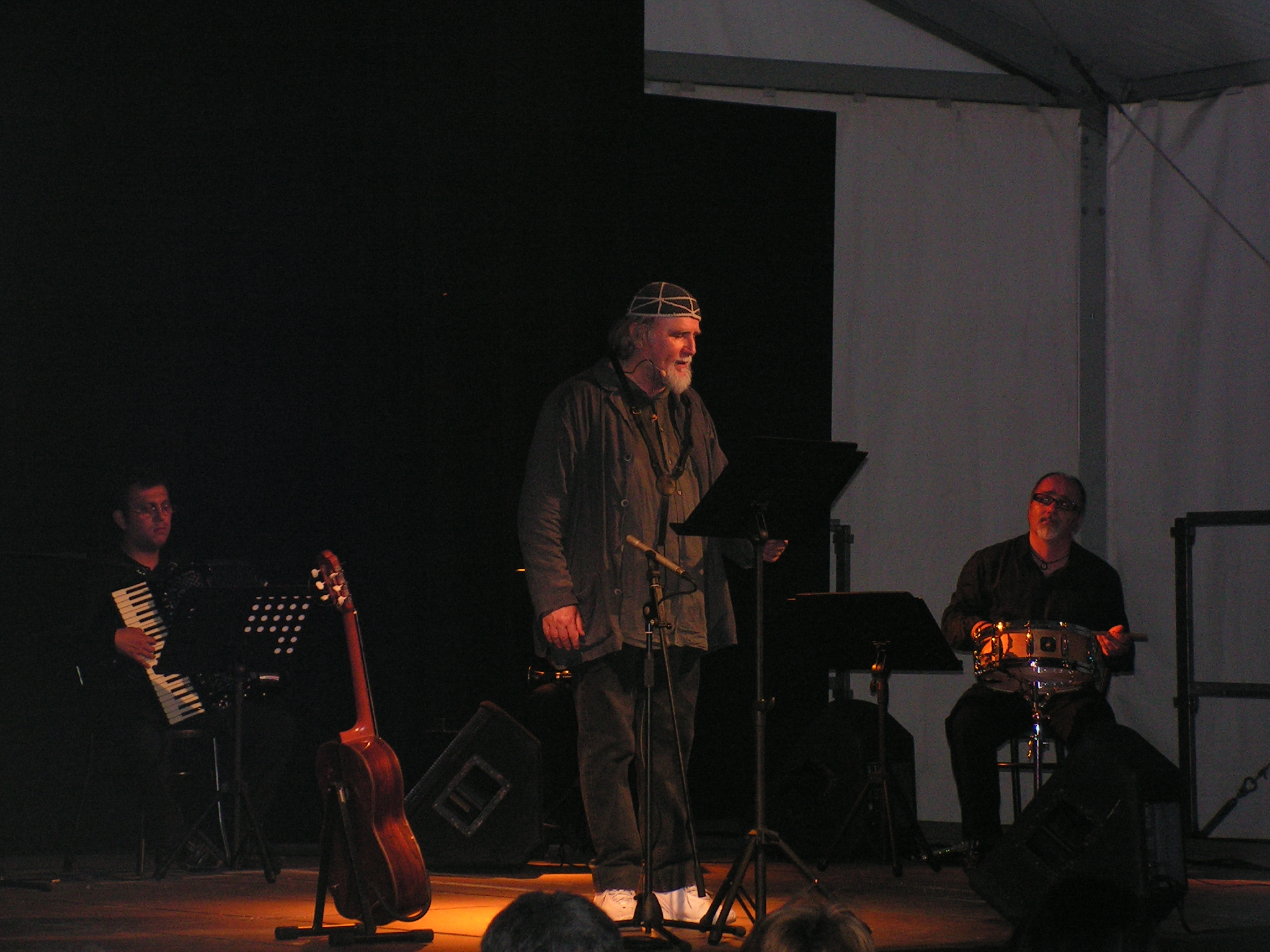 Italian actor Moni Ovadia during a performance.